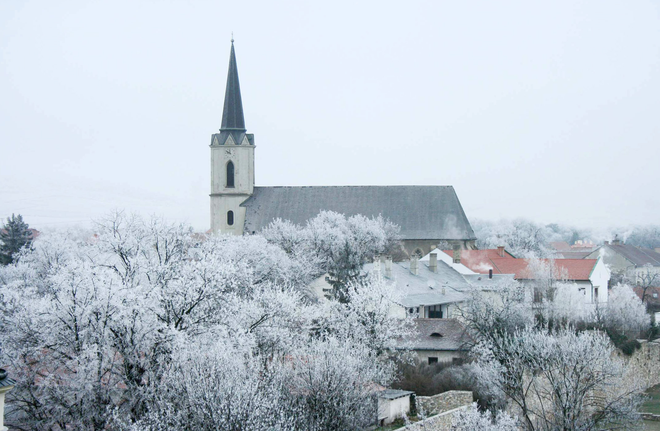 Winter in Sarospatak - Hungary. (The church of the Castle)